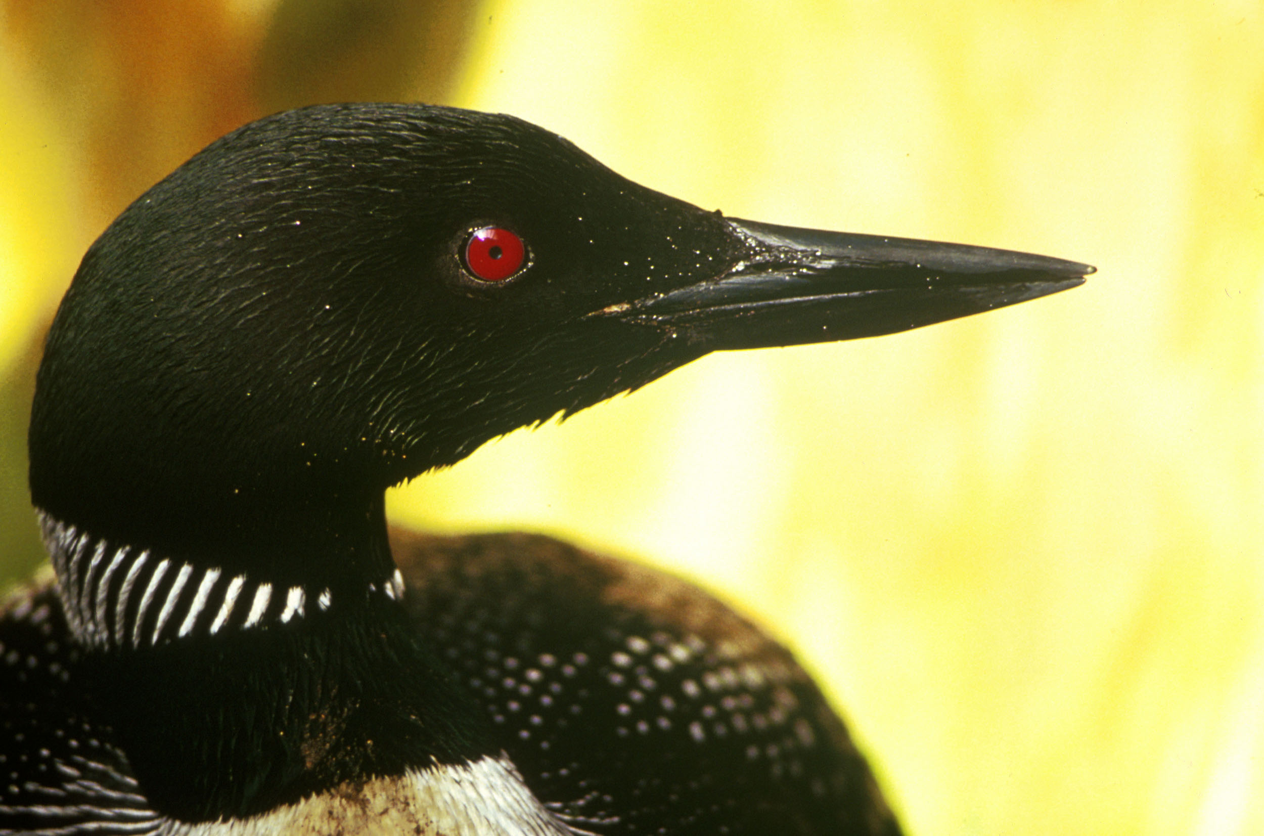 Close-up of the head of a Common Loon.